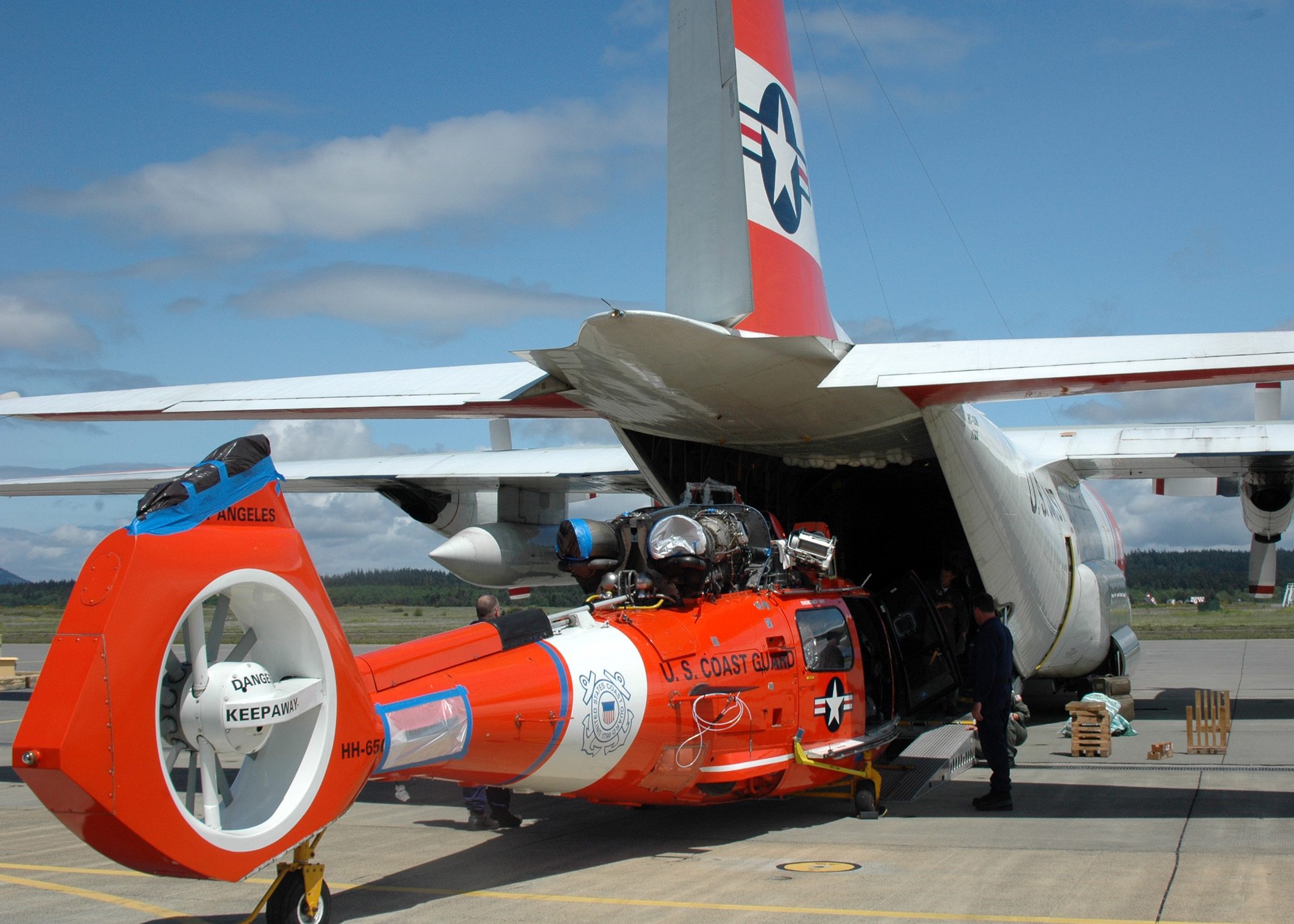 080522-N-5123P-001 OAK HARBOR, Wash. ? Coast Guardsman of Coast Guard Air Station Port Angeles, load an HH-65C Dolphin helicopter into a C-130 Hercules for transit to Hawaii on Naval Air Station Whidbey Island, May 20. This is the last HH-65C CGAS Port Angeles Search and Rescue is transferring to CGAS Barbers Point in Hawaii as they upgrade to the MH-65 helicopter.